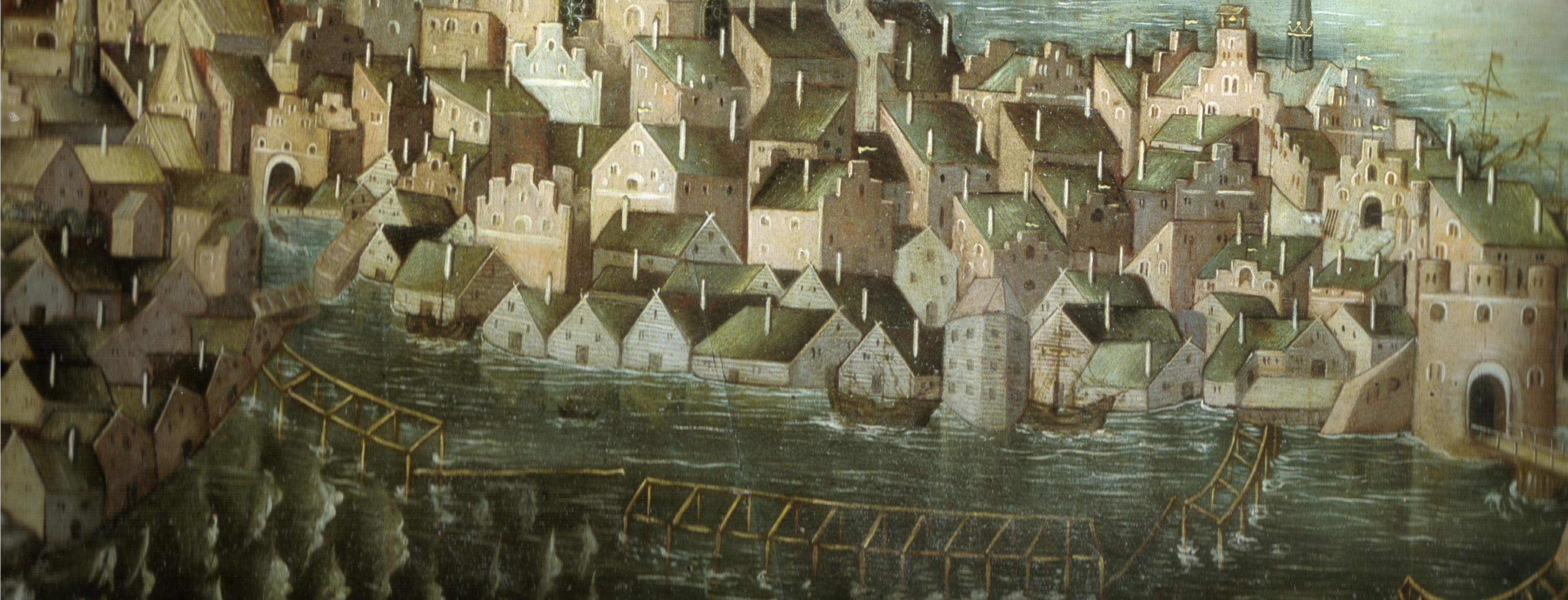 Detail from Vädersolstavlan showing the western shoreline of Gamla stan.